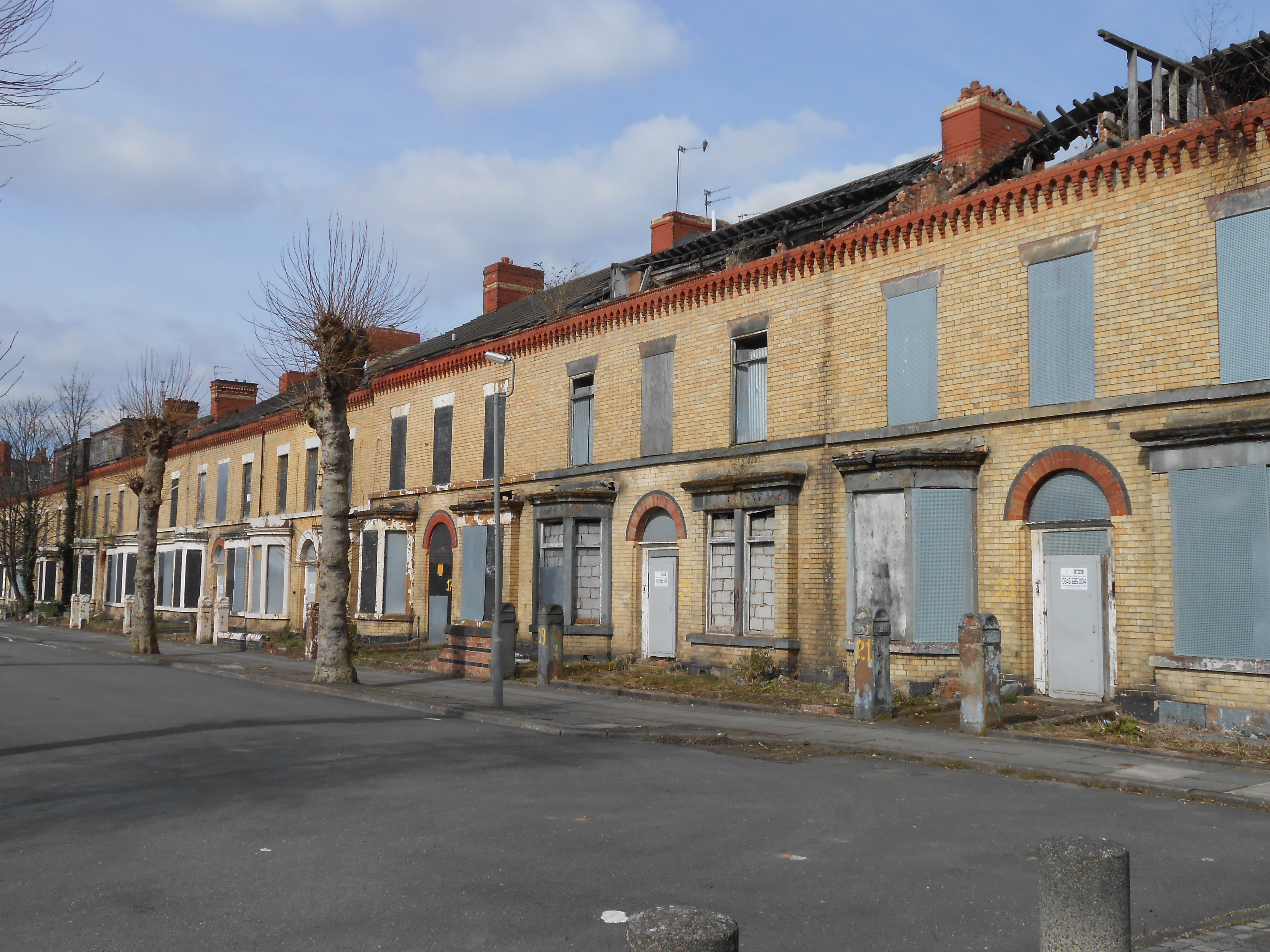 Ducie Street, Toxteth, Liverpool, England.